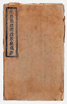 the cover of a Buddhist text in Tangut language, Continuation for Propitiousness Everywhere Reading Edition, printed with Movable type.